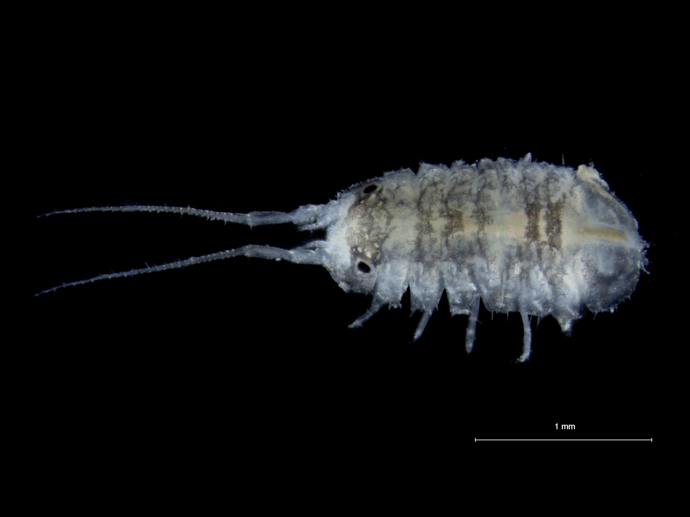 Marine isopod. Image taken with a Leica DFC 490 camera mounted on a Leica M205C binocular microscope. This is an intertidal species found among stones and oysters. Collected in 2011 at the port of Zeebrugge, Belgium at 51°21′1.08″N 3°13′11.67″E / 51.3503°N 3.2199083°E.Length = ~2.5 mmFocus stacking of 16 pictures.